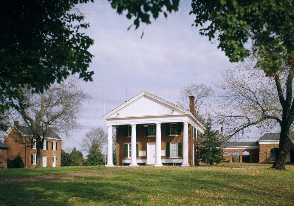 Goochland County Courthouse, East Side of U.S. Route 522, Goochland, (Goochland County, Virginia) cropped This file comes from the Historic American Buildings Survey (HABS), Historic American Engineering Record (HAER) or Historic American Landscapes Survey (HALS). These are programs of the National Park Service established for the purpose of documenting historic places. Records consist of measured drawings, archival photographs, and written reports. When reusing please credit: Library of Congress, Prints & Photographs Division, va5 This tag does not indicate the copyright status of the attached work. A normal copyright tag is still required. See Commons:Licensing. This work is in the public domain in the United States because it is a work prepared by an officer or employee of the United States Government as part of that person’s official duties under the terms of Title 17, Chapter 1, Section 105 of the US Code. Note: This only applies to original works of the Federal Government and not to the work of any individual U.S. state, territory, commonwealth, county, municipality, or any other subdivision. This template also does not apply to postage stamp designs published by the United States Postal Service since 1978. (See § 313.6(C)(1) of Compendium of U.S. Copyright Office Practices). It also does not apply to certain US coins; see The US Mint Terms of Use. This file has been identified as being free of known restrictions under copyright law, including all related and neighboring rights. Object location37° 40′ 57″ N, 77° 53′ 04″ W